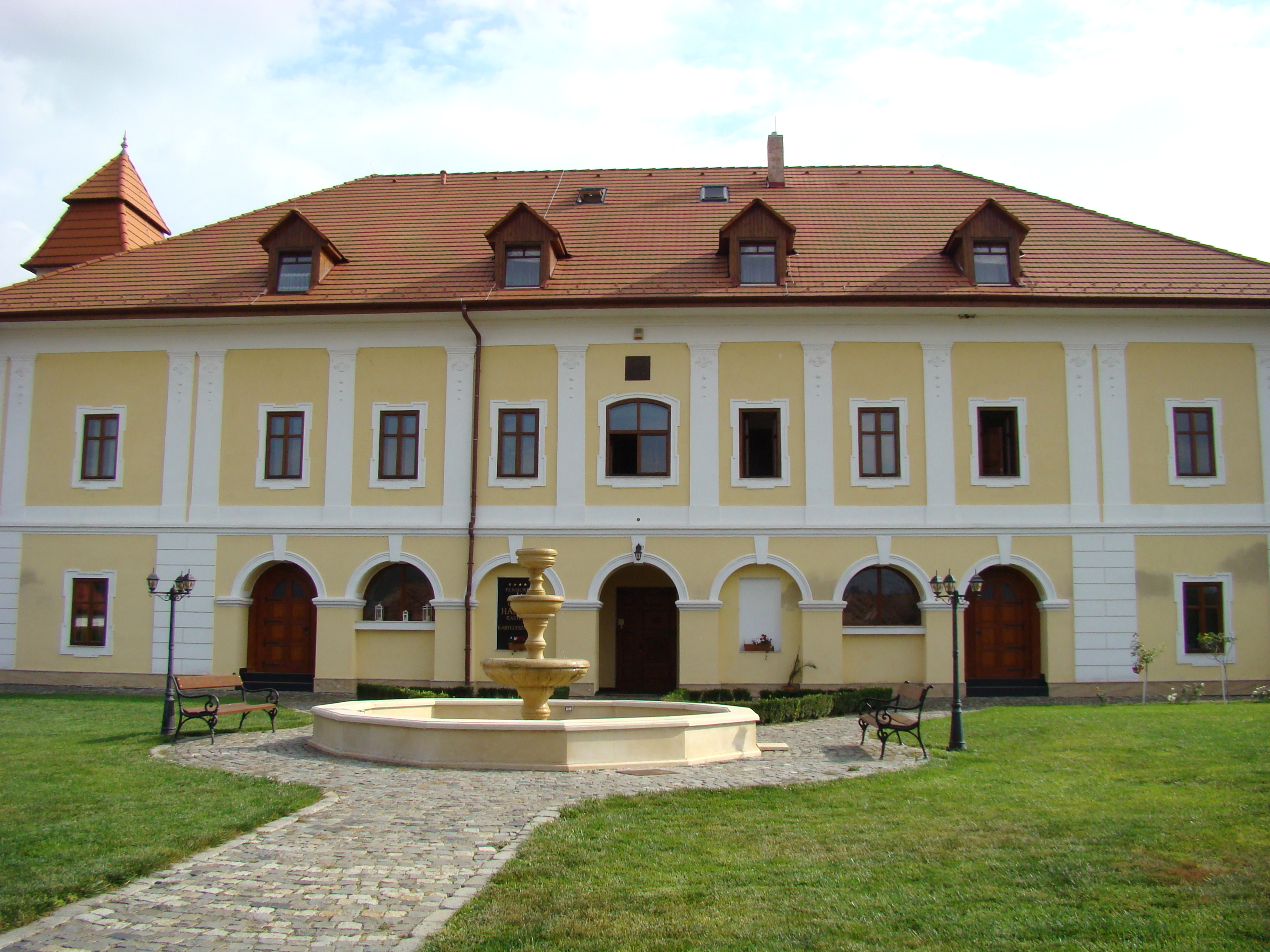 Haller Castle in Ogra, Mureș county, Romania